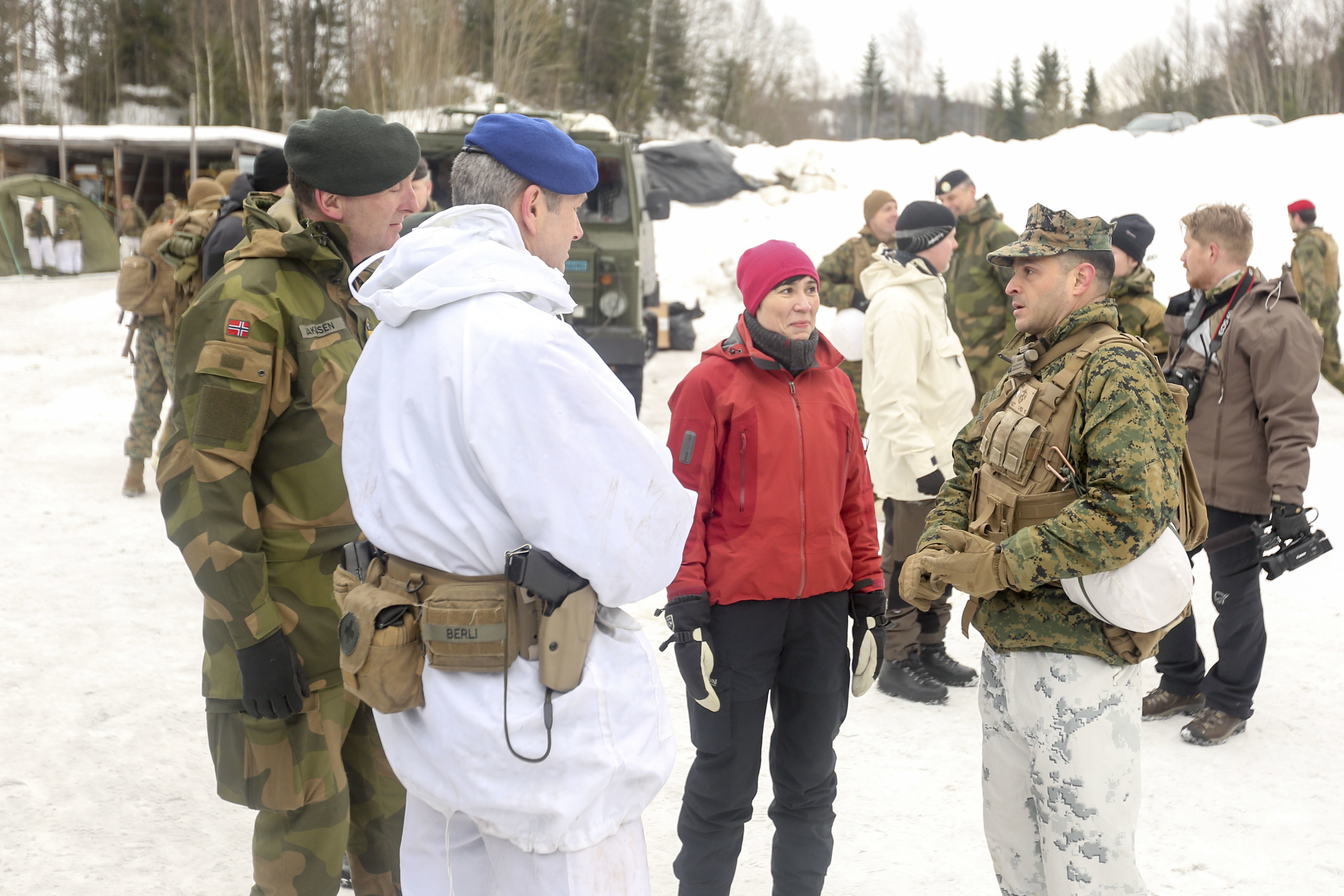 Norwegian Minister of Defense Ine Marie Eriksen Søreide talks with Lt. Col. Justin Ansel, the commanding officer of Task Force 1/8, and officers from Norway and Sweden at a training location near Steinkjer, Norway, March 2, 2016. Exercise Cold Response 16 is a multinational exercise combining the efforts of 13 NATO allies and partner nations and approximately 15,000 troops taking place across Norway. (U.S. Marine Corps photo by Cpl. Dalton A. Precht/released)